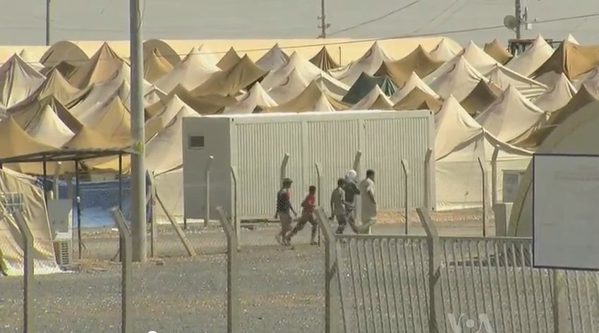 Syrian refugee center on the Turkish border (3 August 2012).